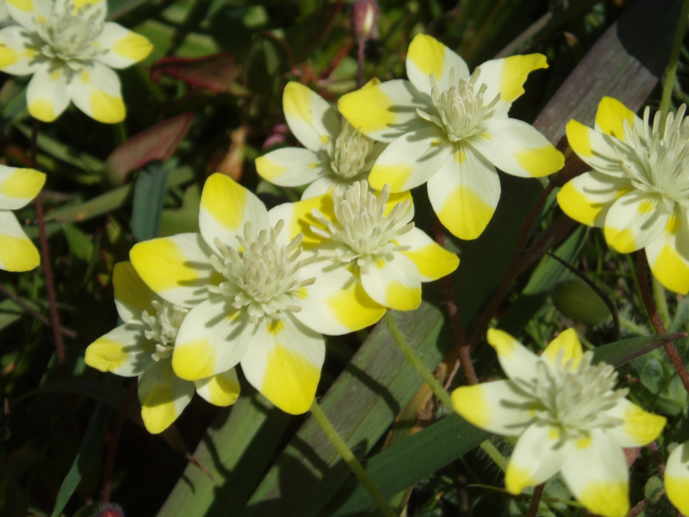 Platystemon californicus — at Gerstle Cove, Salt Point State Park. Located in Sonoma County, California.